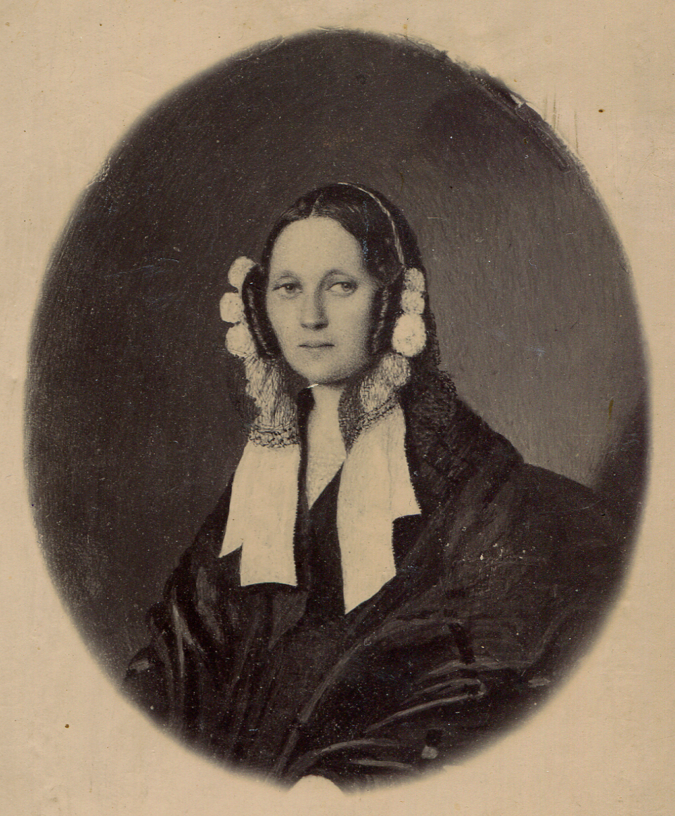 Anastasiya Vasilievna Yakushkina, wife of decembrist Ivan Yakushkin